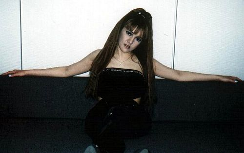 A photo of the dance singer Maloy Lozanes.